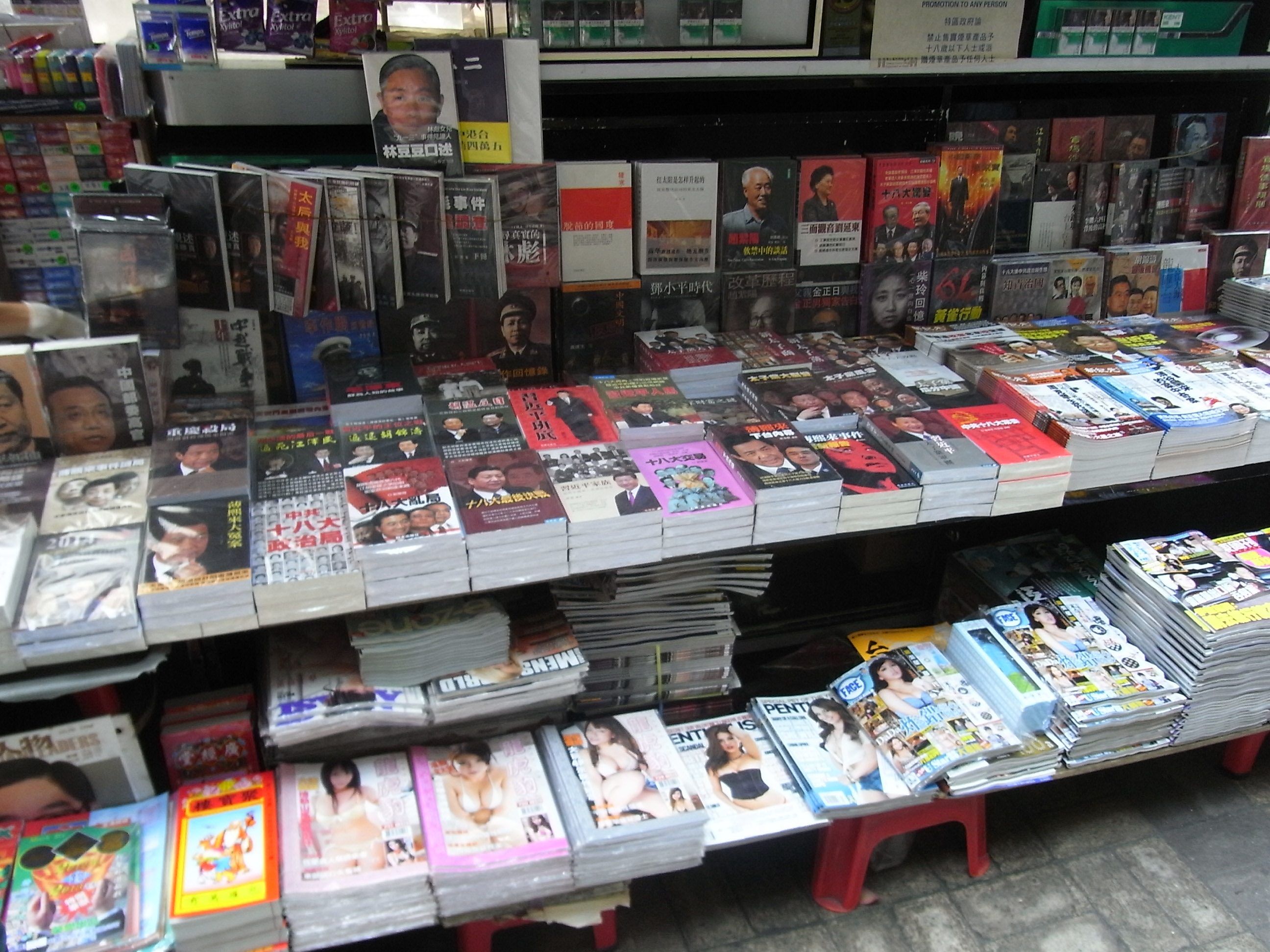 尖沙咀 廣東道, Canton Road, Tsim Sha Tsui, Hong Kong